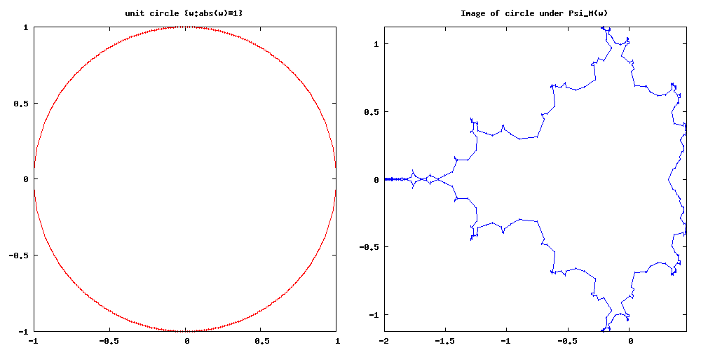 Boundary of Mandelbrot set as an image of unit circle of Jungreis function